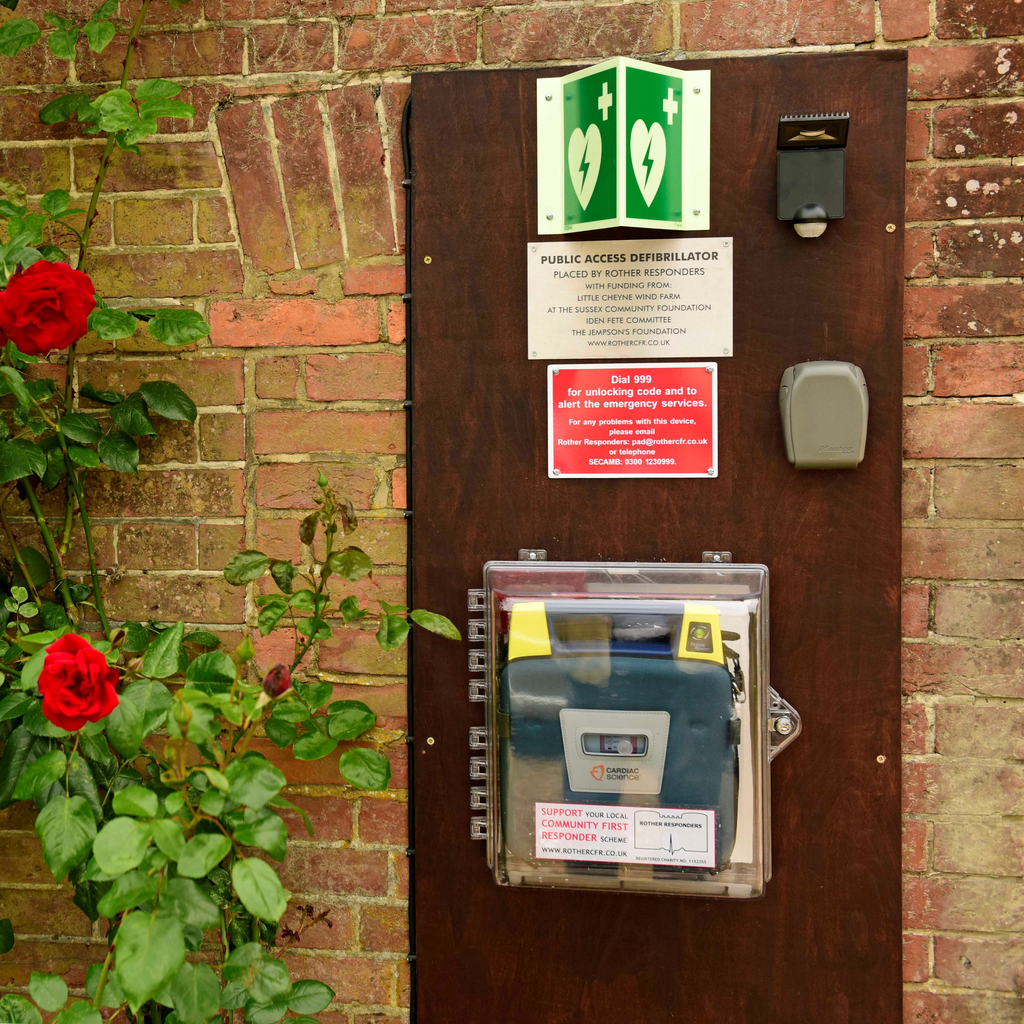 This is our new Automated External Defibrillator which is attached to the Old Church Hall. I hope the rose doesn't grow over it.